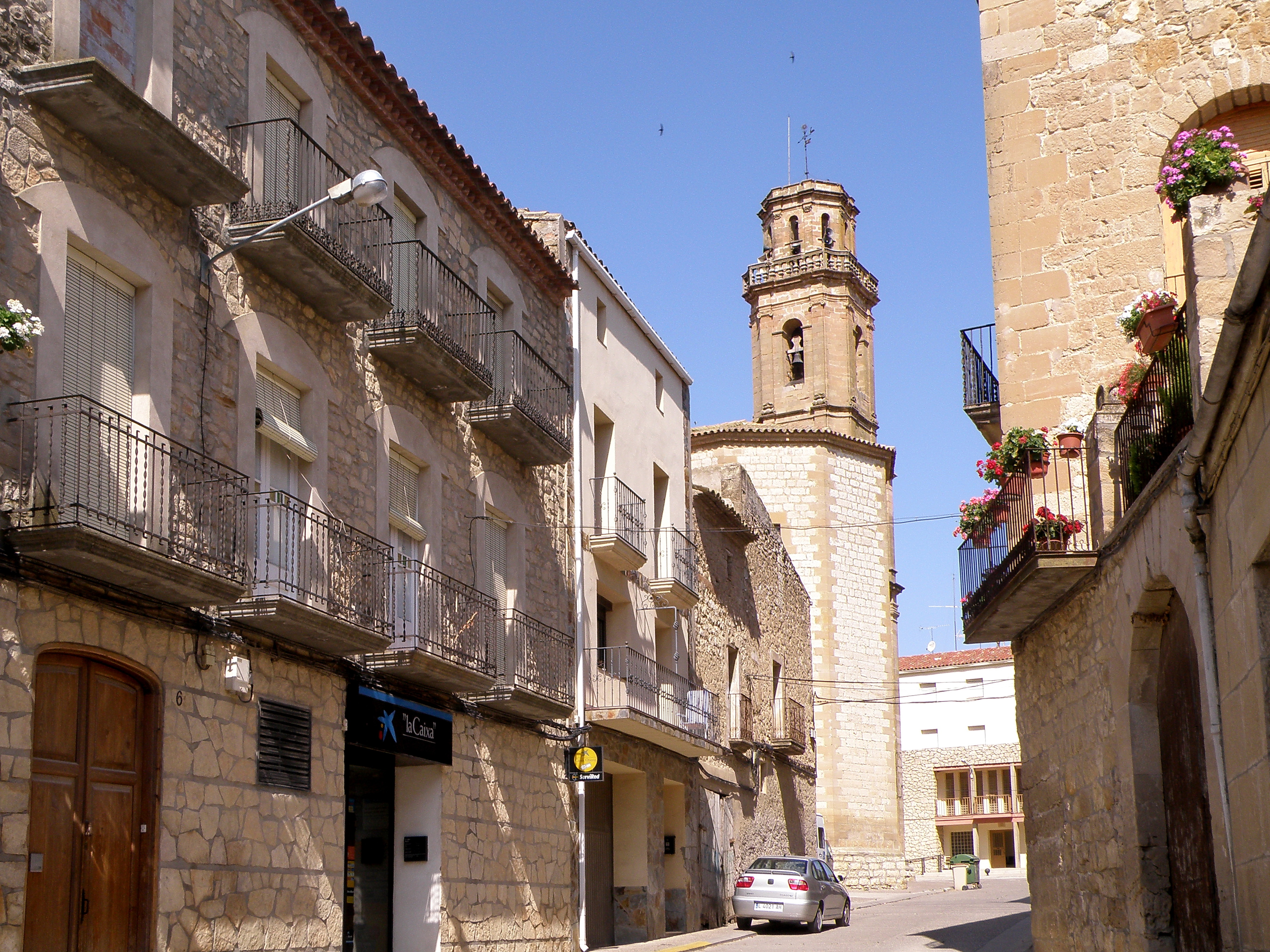 Baroc church in Maials